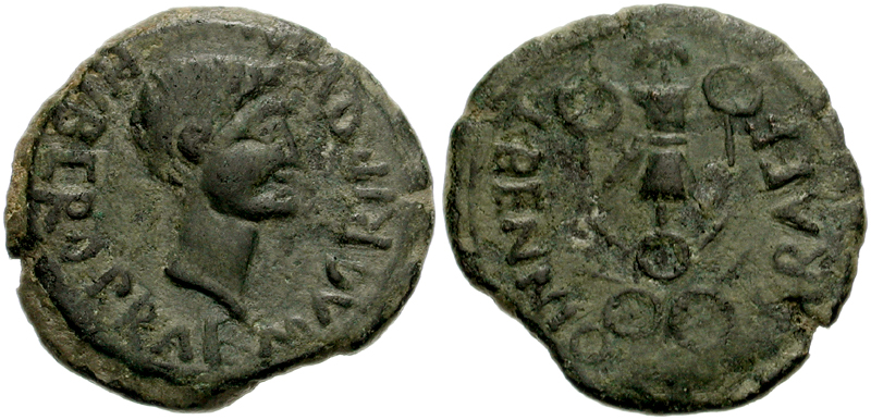 SPAIN, Terraconensis. Carthago Nova. Agrippa. Died AD 12. Æ Semis (21mm, 4.27 g). Bare head of Agrippa right / Trophy. RPC I 164; SNG Copenhagen 491. VF, dark green patina.